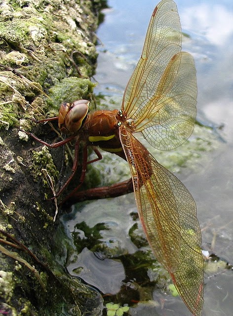 Aeshna grandis ovipositing